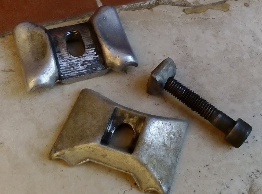 components of a bicycle saddle clamp, the clamp that holds the seat on the seatpost. The ridges on the bottom section are worn. This clamp will not hold the seat in place.